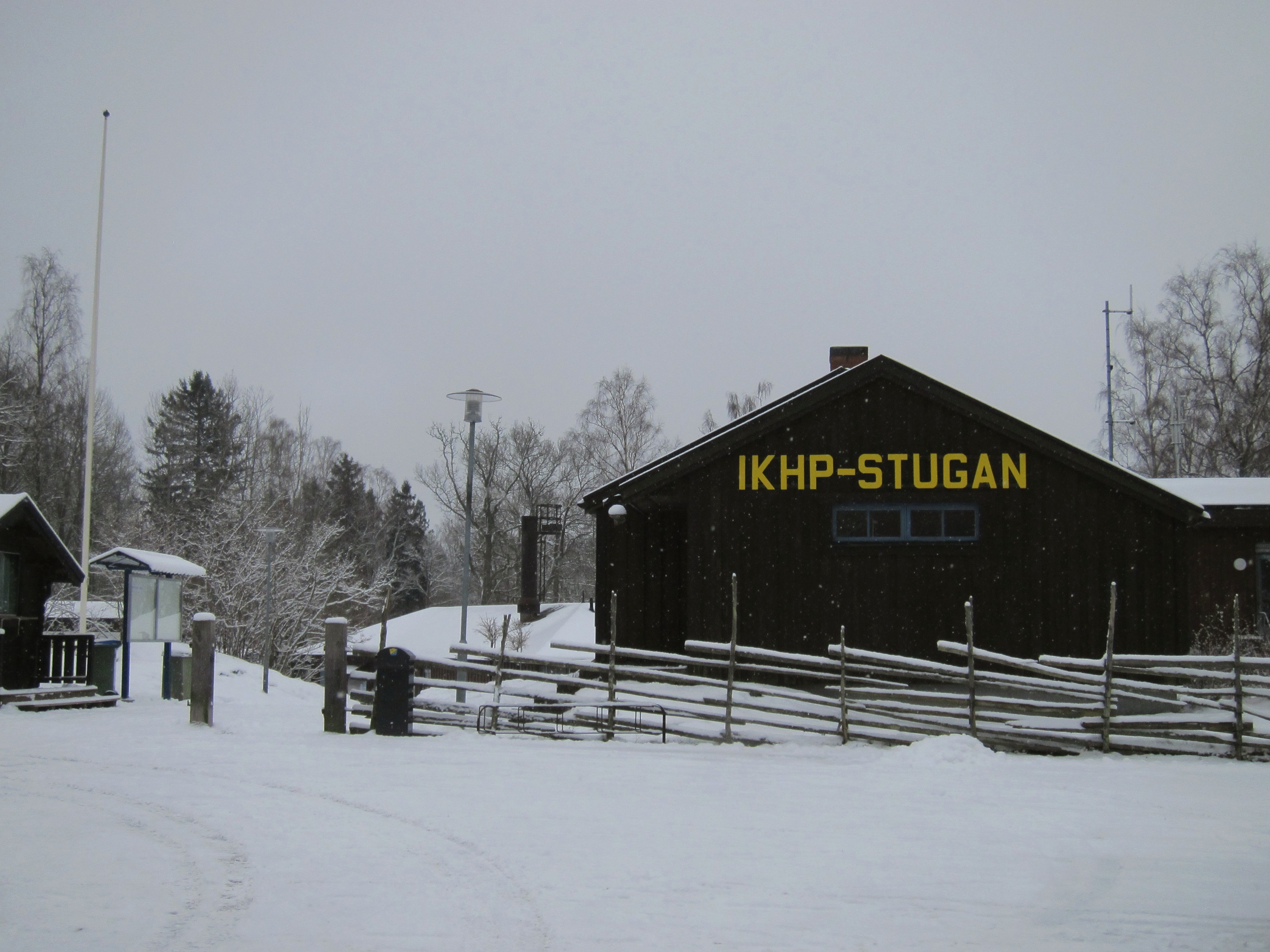 The home of the swedish sports club IKHP.